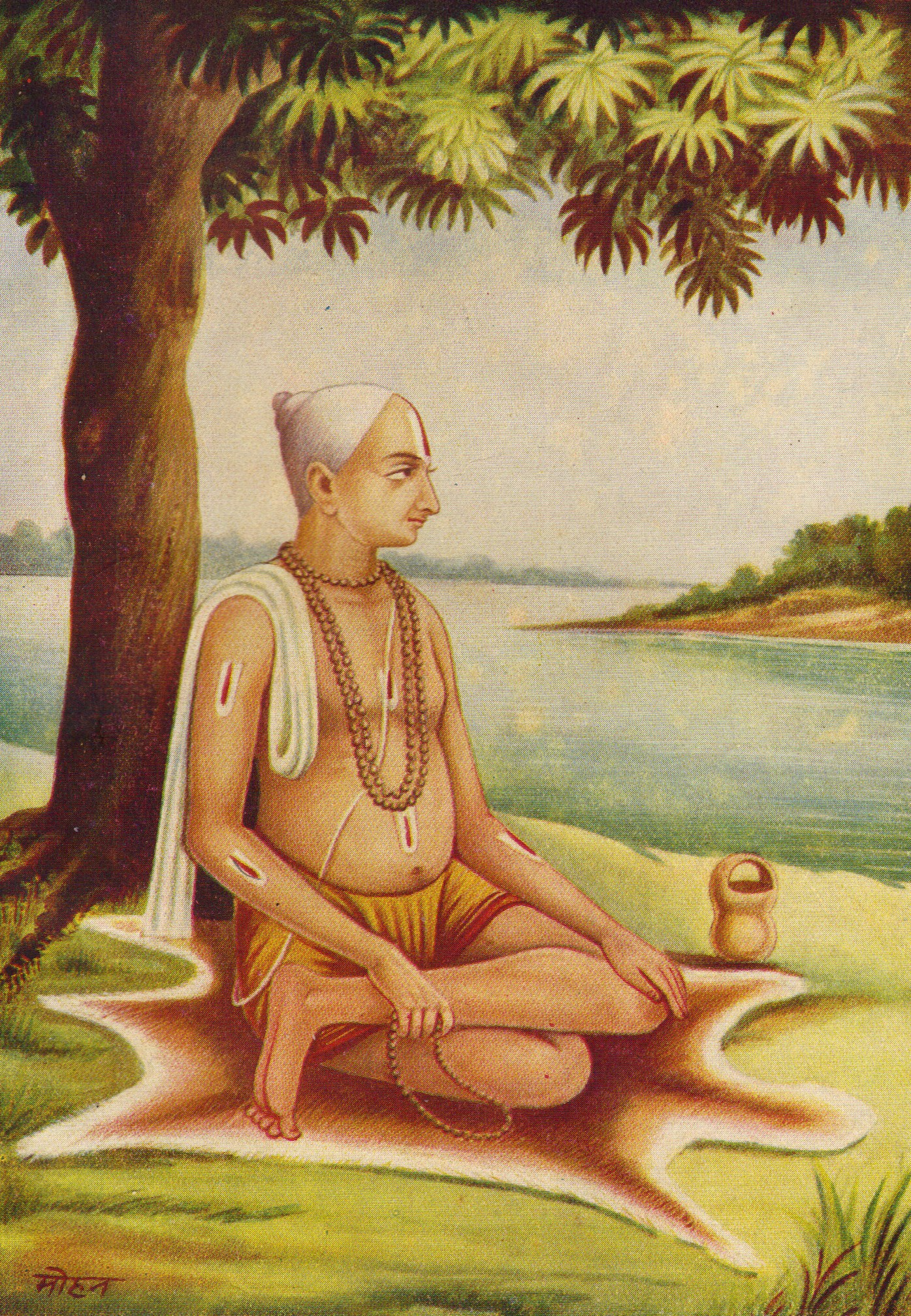 Goswami Tulsidas Awadhi Hindi poet and composer of the Ramcharitmanas